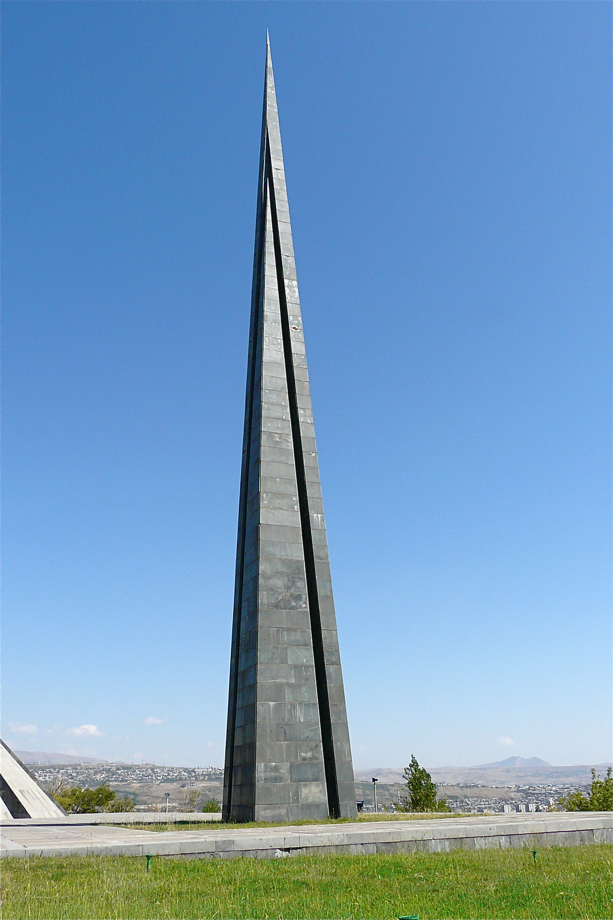 Tsitsernakaberd - Yerevan In 1965, the 50th anniversary of the genocide, a 24-hour mass protest was initiated in Yerevan demanding recognition of the Armenian Genocide by Soviet authorities. The memorial was completed two years later, at Tsitsernakaberd above the Hrazdan gorge in Yerevan. The 44 metres (140 ft) stele symbolizes the national rebirth of Armenians. Twelve slabs are positioned in a circle, representing 12 lost provinces in present day Turkey. At the center of the circle there is an eternal flame. Each April 24, hundreds of thousands of people walk to the genocide monument and lay flowers around the eternal flame.